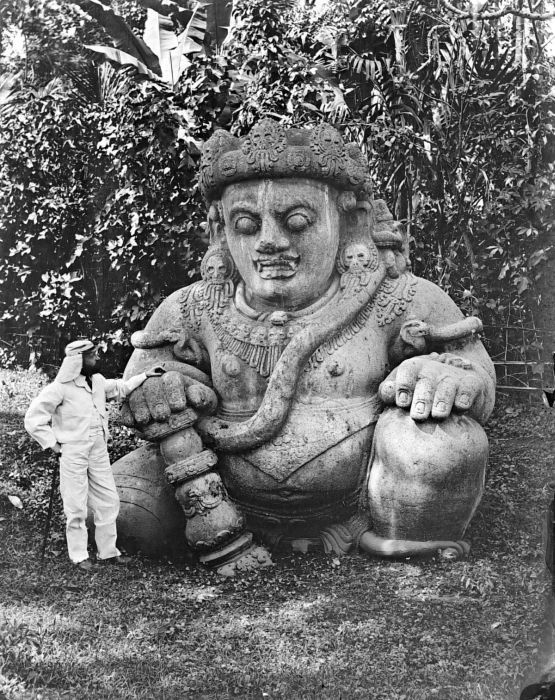 Stone statue of a demonic temple guard, Singosari, Jawa